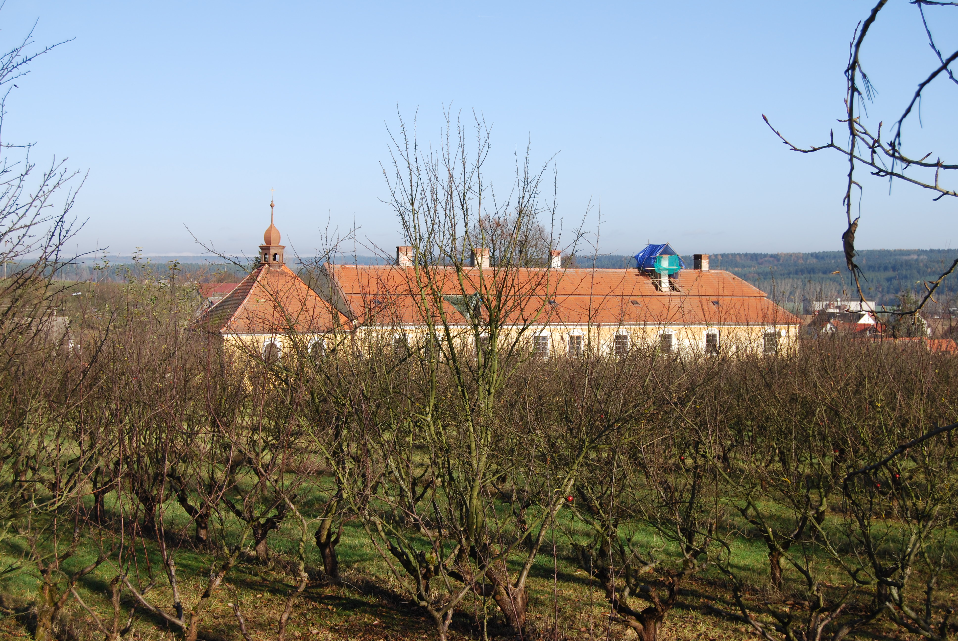 Dražíč village in České Budějovice District, Czech Republic. Dražíč palace